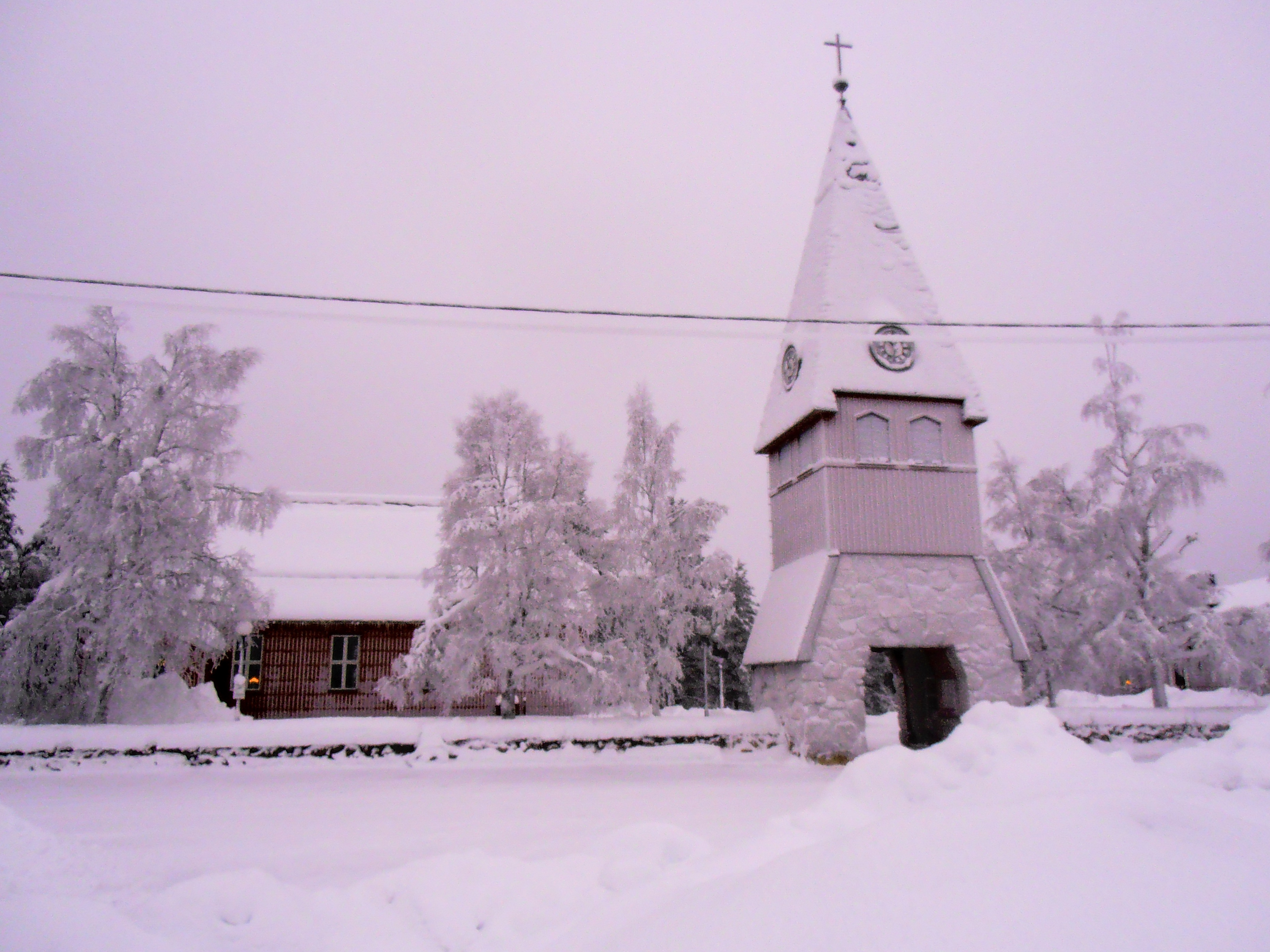 Church in Nilivaara, Sweden